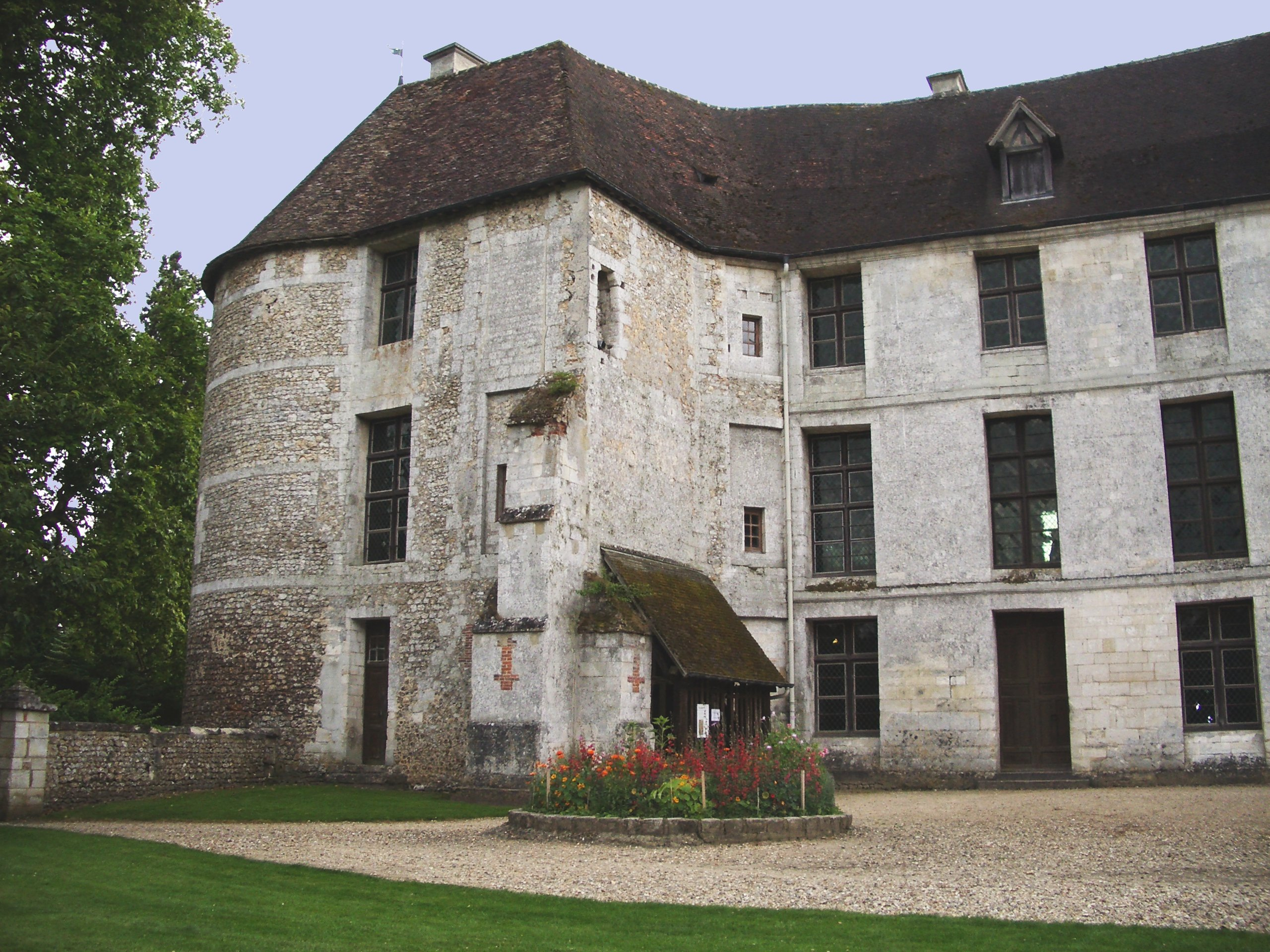 The most recent side of the Harcourt castle